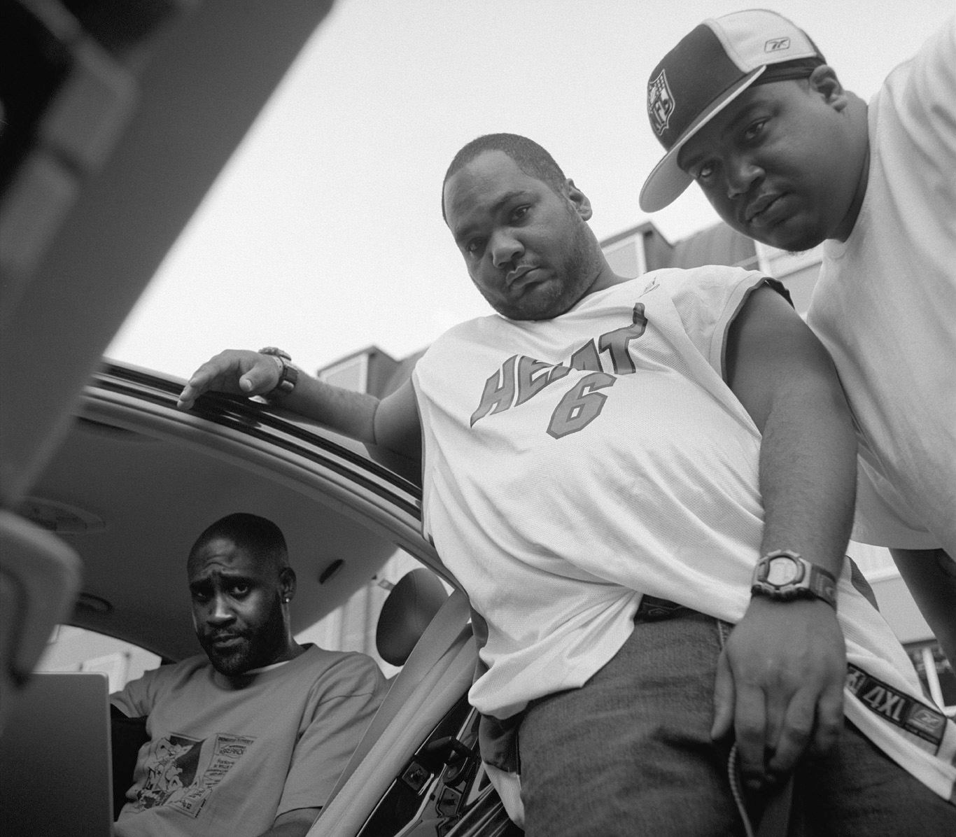 rapper De La Soul at Splash Festival Germany 2002